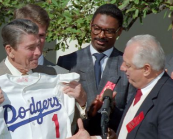 President Ronald Reagan, Alejandro Peña and Tommy Lasorda